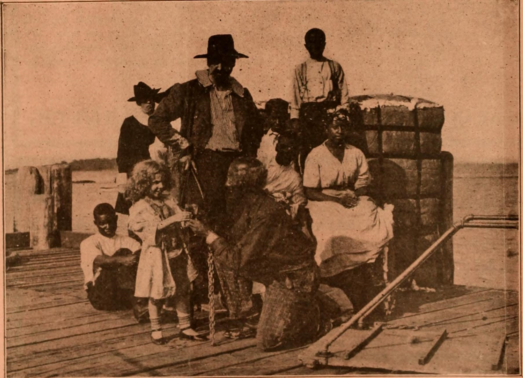 Another film still from Uncle Tom's Cabin by the Thanhouser Company.